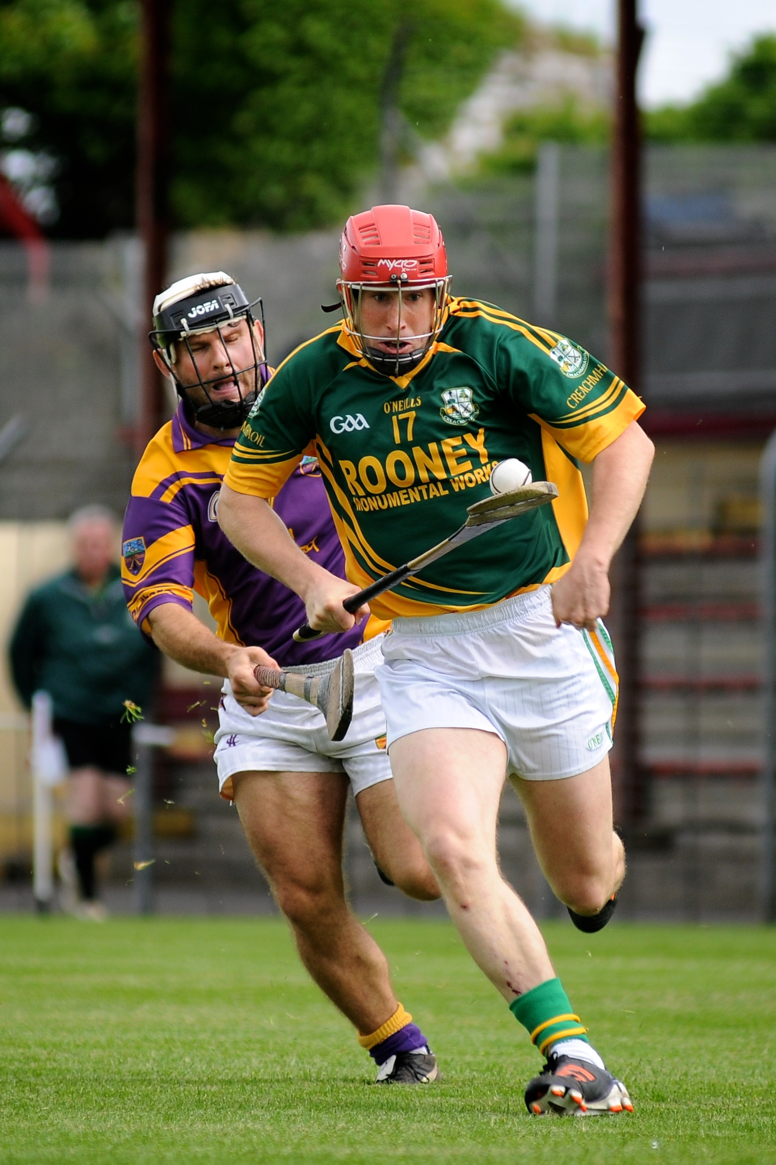 Niall Healy in action for Craughwell against Kinvara's Colm Burke in the 2013 Galway Senior hurling Championship